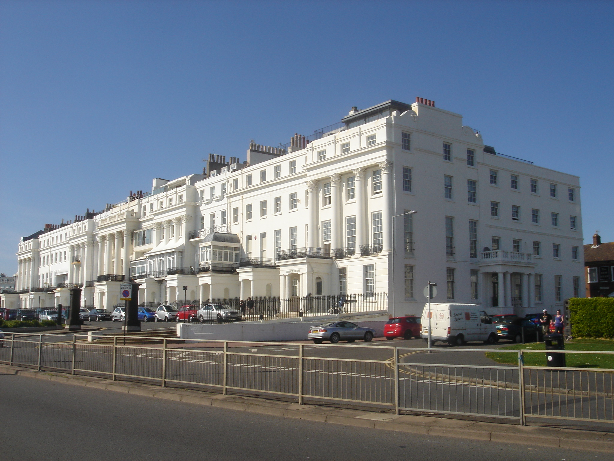 Arundel Terrace, Kemp Town, City of Brighton and Hove, England. The easternmost part of the 1820s Kemp Town development—financed by Thomas Read Kemp, designed by the Amon Wilds and Charles Busby partnership and partly built by Thomas Cubitt. Listed at Grade I by English Heritage (IoE Code 479359)